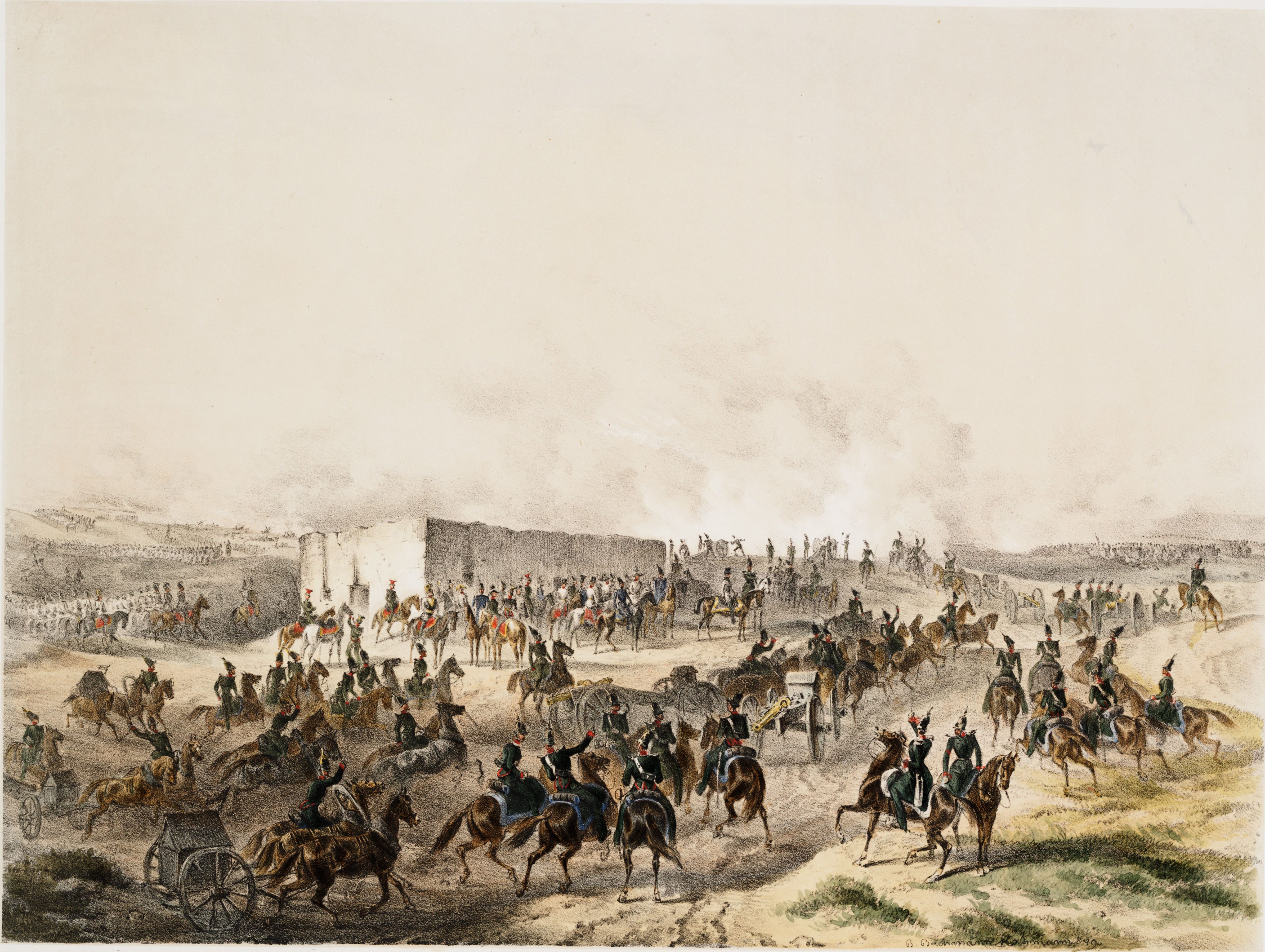 The siege of Komárom after the Hungarian surrender at Világos from 13 August, Komárom being the last fortress in Hungarian hands, resisting until 2 October 1849.